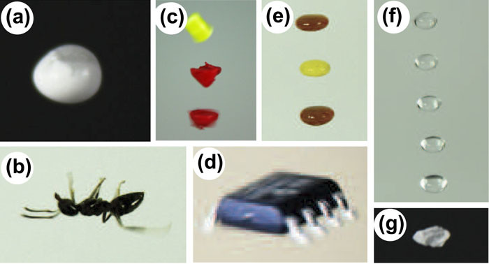 A selection of acoustically levitated samples using TinyLev style levitator. The objects are (a) A 40 μl supersaturated solution of isopropyl and tin dioxide, 2.5 mm in diameter. (b) Ant, 6 mm long without the antennas. (c) Polylactic acid, 2 mm width fragments. (d) MOSFET TC4427, 5 × 1.45 × 3.85 mm. (e) Ketchup and mustard, 3 mm wide. (f) Water, 3 mm wide. (g) Sugar crystal, 1 mm wide.